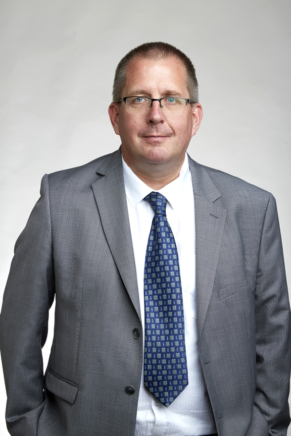 Guy Wilkinson is a particle physicist at the University of Oxford working on the Large Hadron Collider project at CERN and a Fellow of Christ Church, Oxford Attribution: The Royal Society